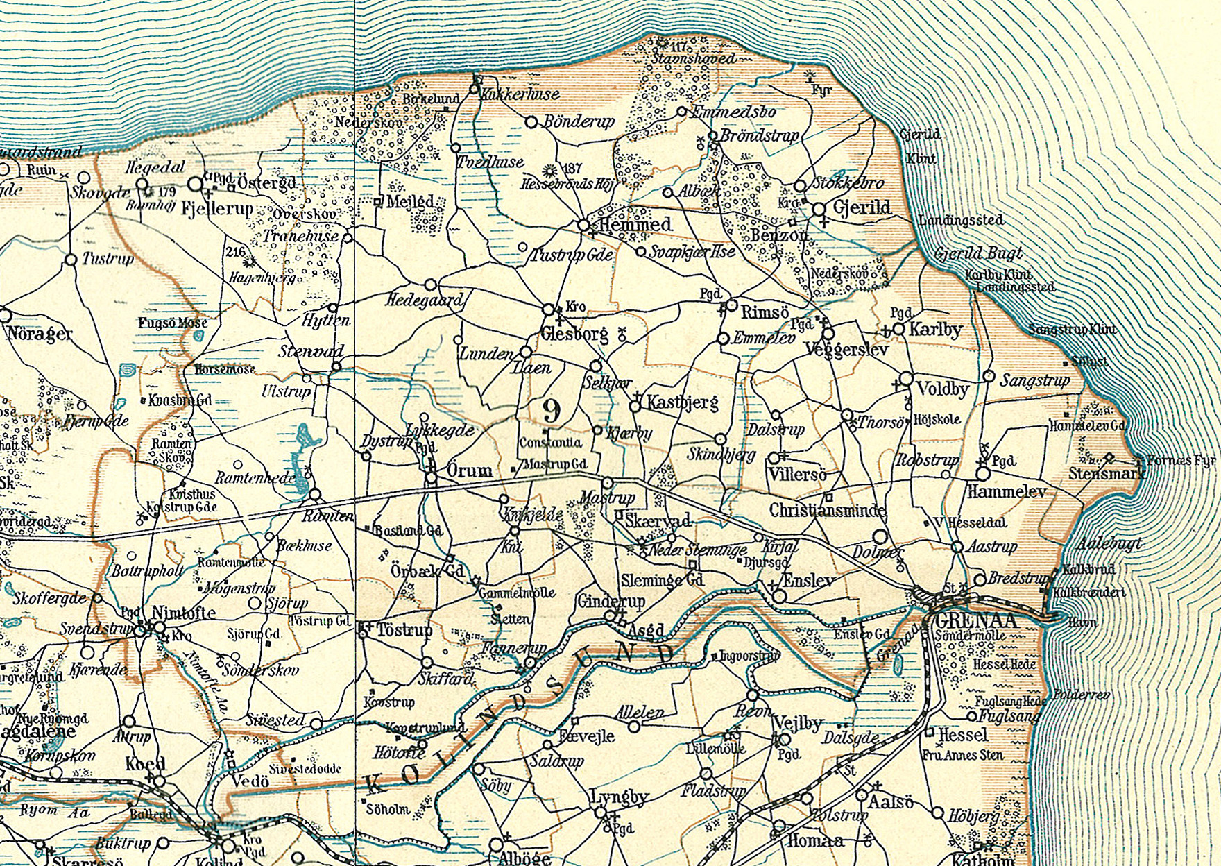 Map of Djurs Nørre Herred in the eastern part of Randers County in Denmark